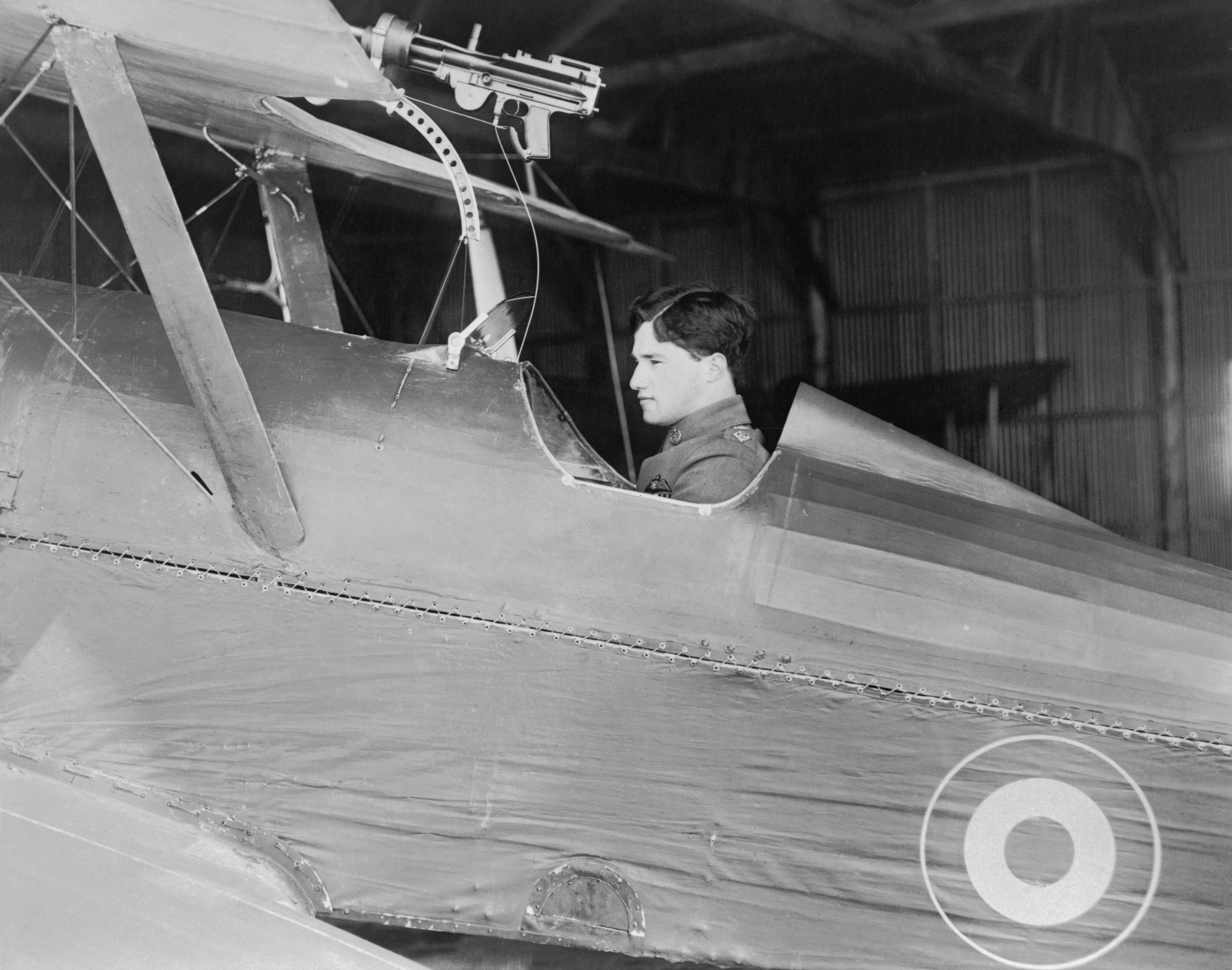 English WWI flying ace Captain Albert Ball in the cockpit of his SE5a fighter.